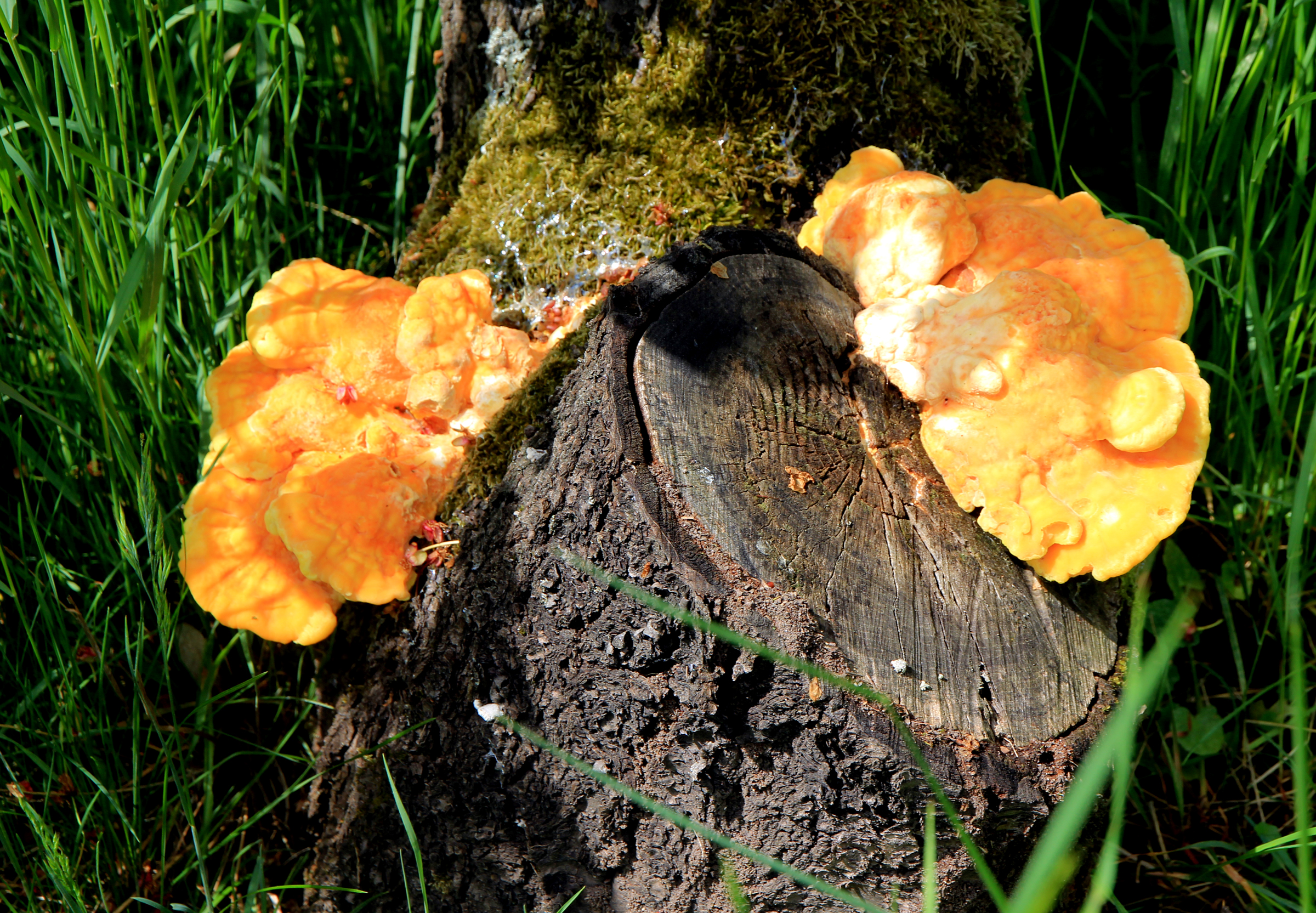 Fungus Laetiporus sulphureus on stub of cherry tree in Jaroměř, Czech Republic.